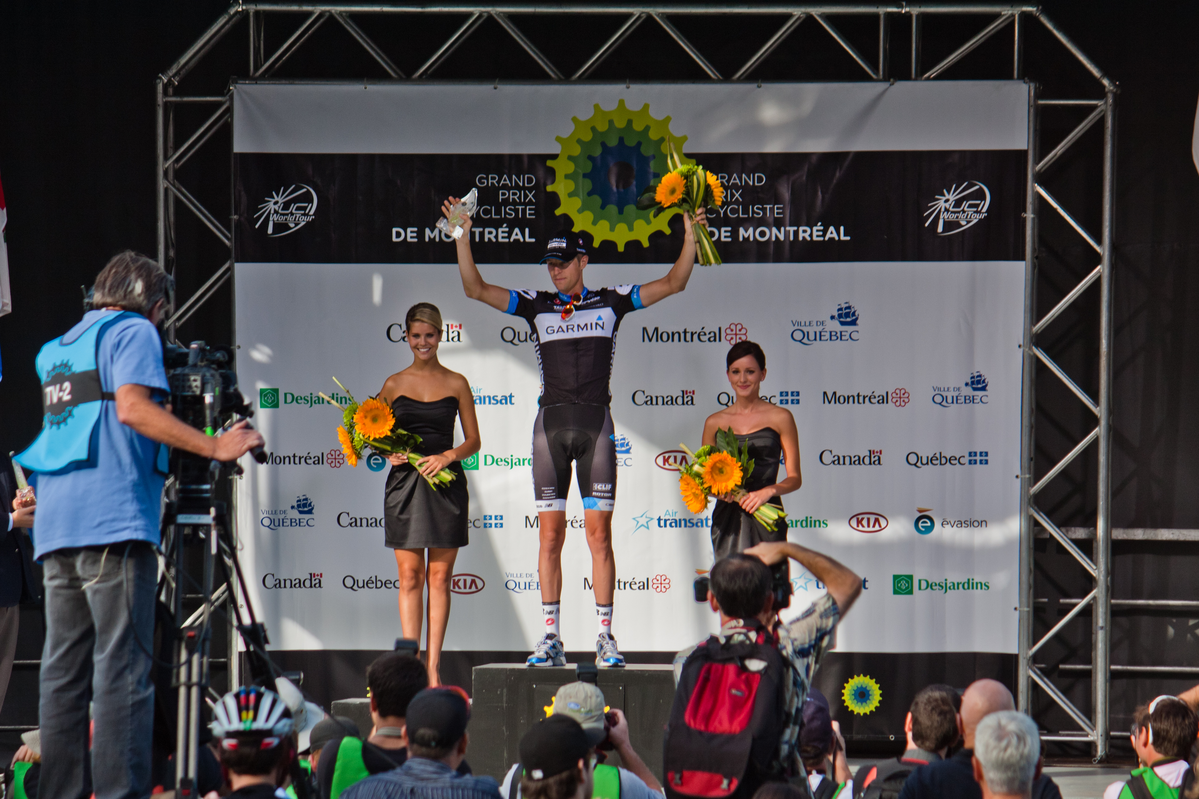 Winner of 'Best Canadian', Ryder Hesjedal, riding for Garmin-Cervelo# Grand Prix Cycliste de Montréal, GPCQM, 2011#